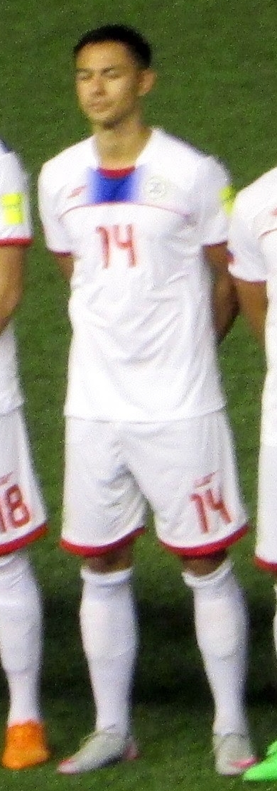 Kevin Ingresso with the Philippine national team. Philippines v. Maldives friendly. September 3, 2015.